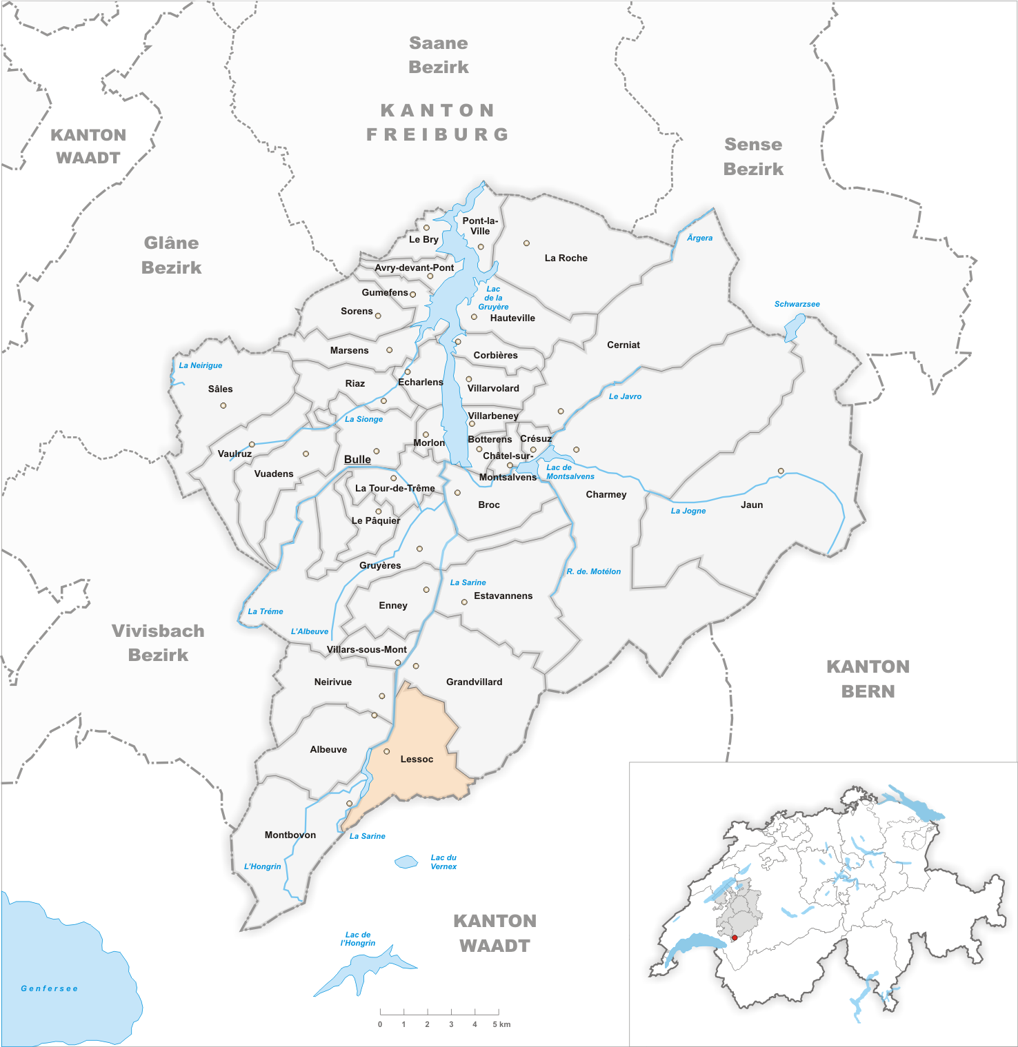 Municipality Lessoc Artist: Tschubby